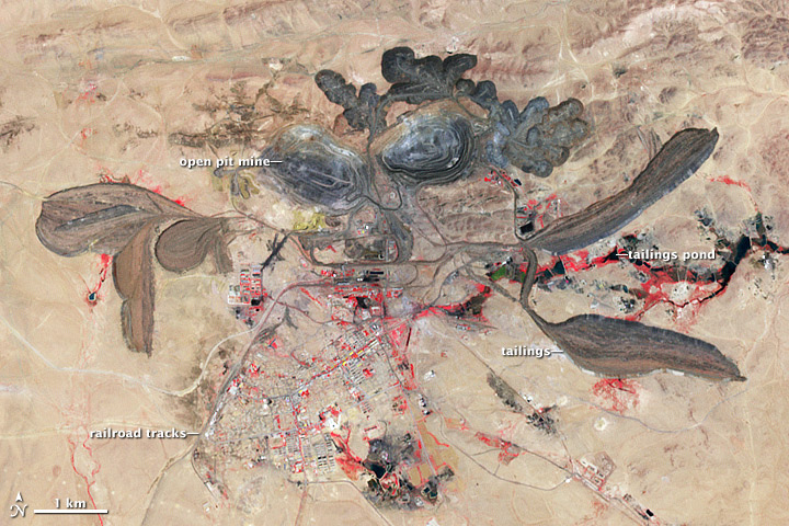 Rare Earth mine in Bayan Obo, China